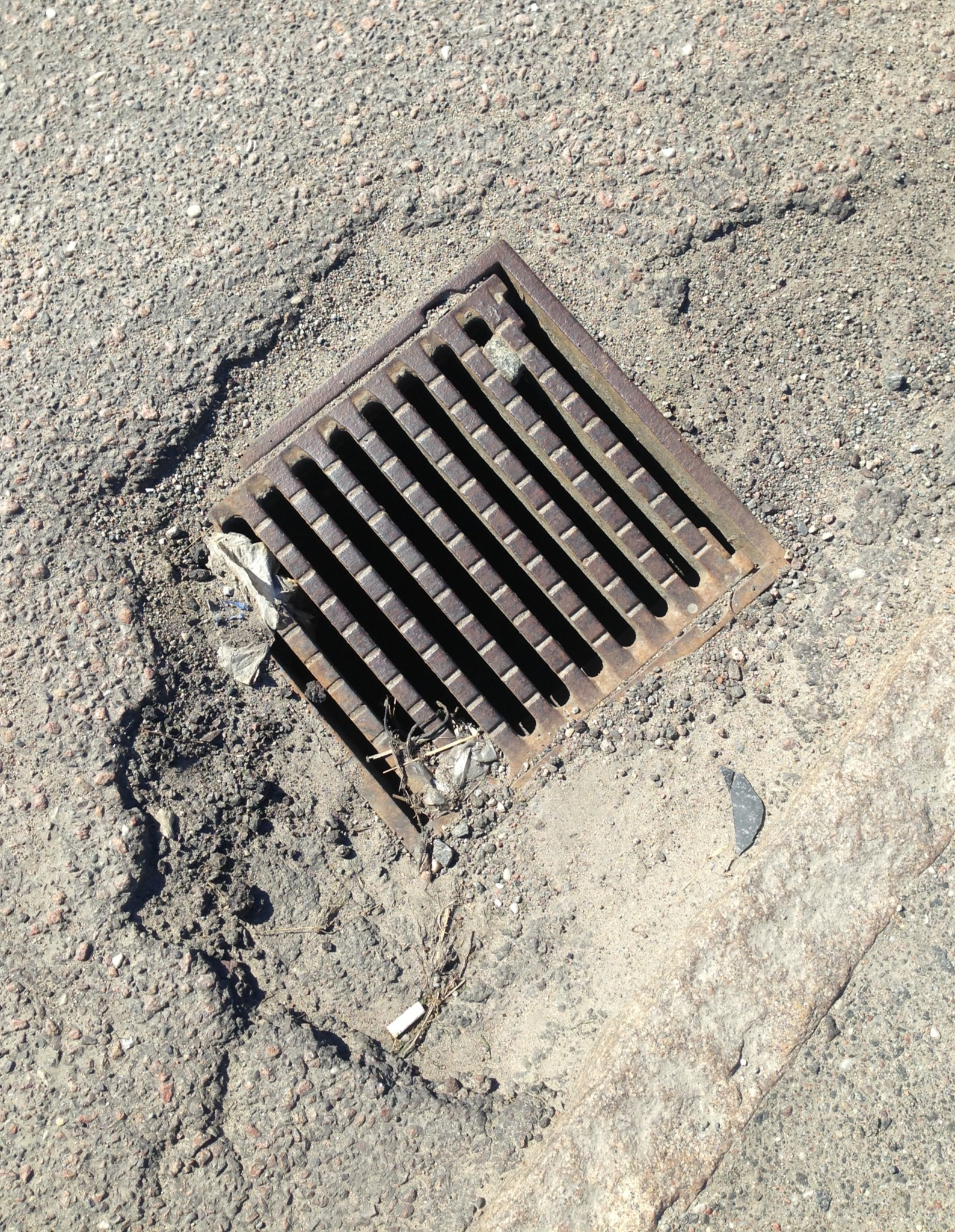 A storm drain in Gothenburg, Sweden, 2013